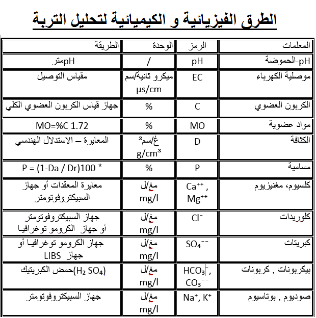 Lake of Fetzara